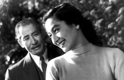 So Yamamura and Setsuko Hara in 1954 Japanese movie Sound of the Mountain